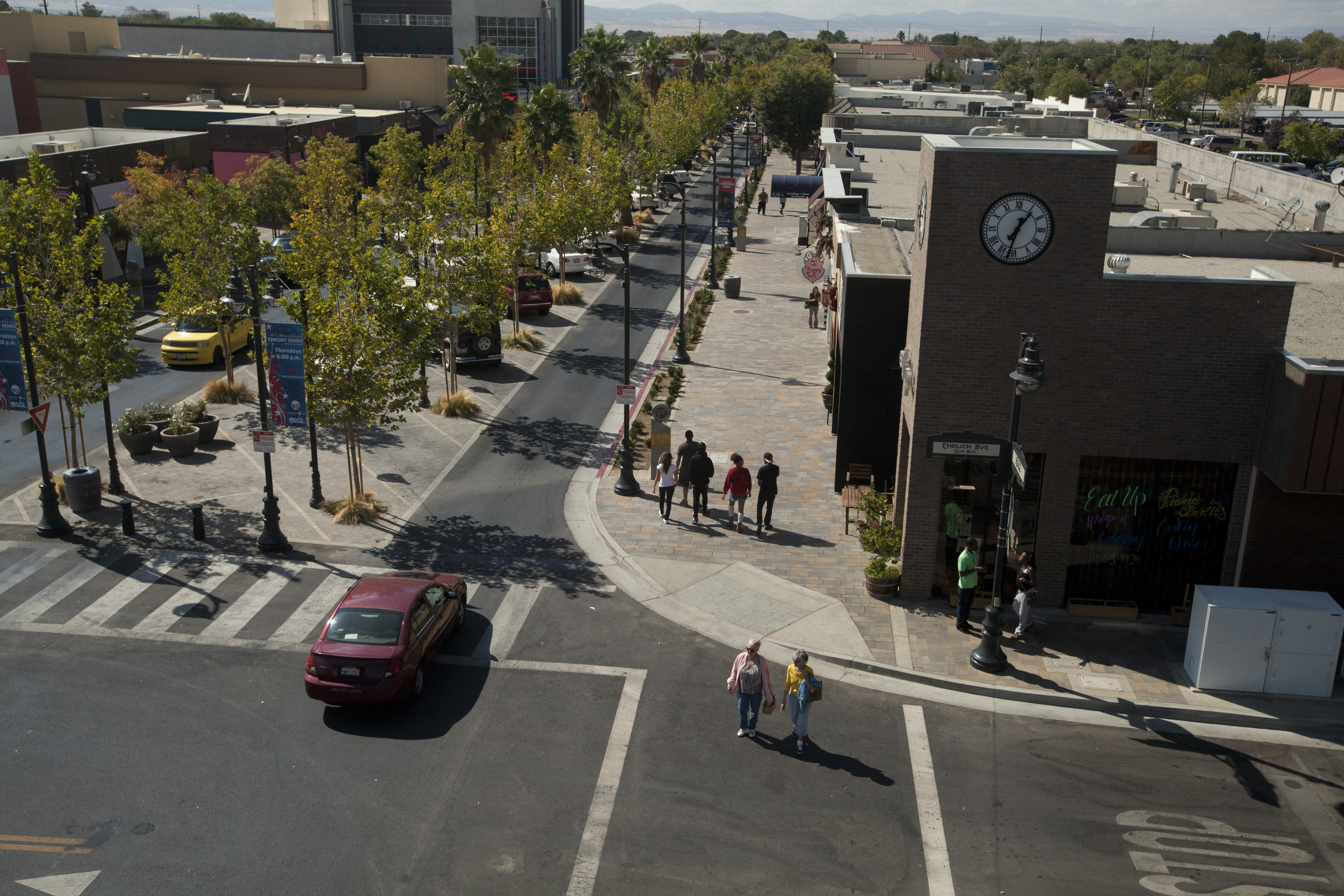 The redesign of Lancaster Boulevard helped transform downtown Lancaster into a thriving residential and commercial district through investments in new streetscape design, public facilities, affordable homes, and local businesses. Dubbed “The BLVD Transformation,” this comprehensive effort engaged residents and businesses to revitalize the formerly dilapidated downtown and make it a distinctive destination. Completed after just eight months of construction, The BLVD demonstrates how redesigning a corridor guided by a strategic vision can spark new life in a community. Photo courtesy of EPA.